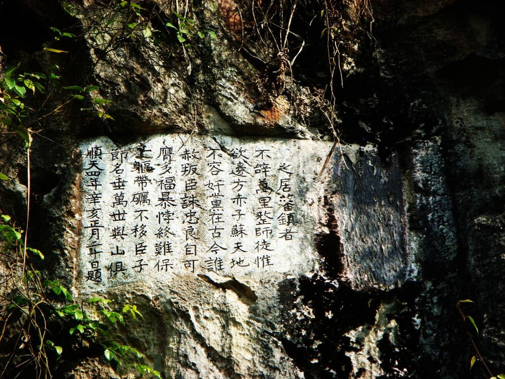 le thai to